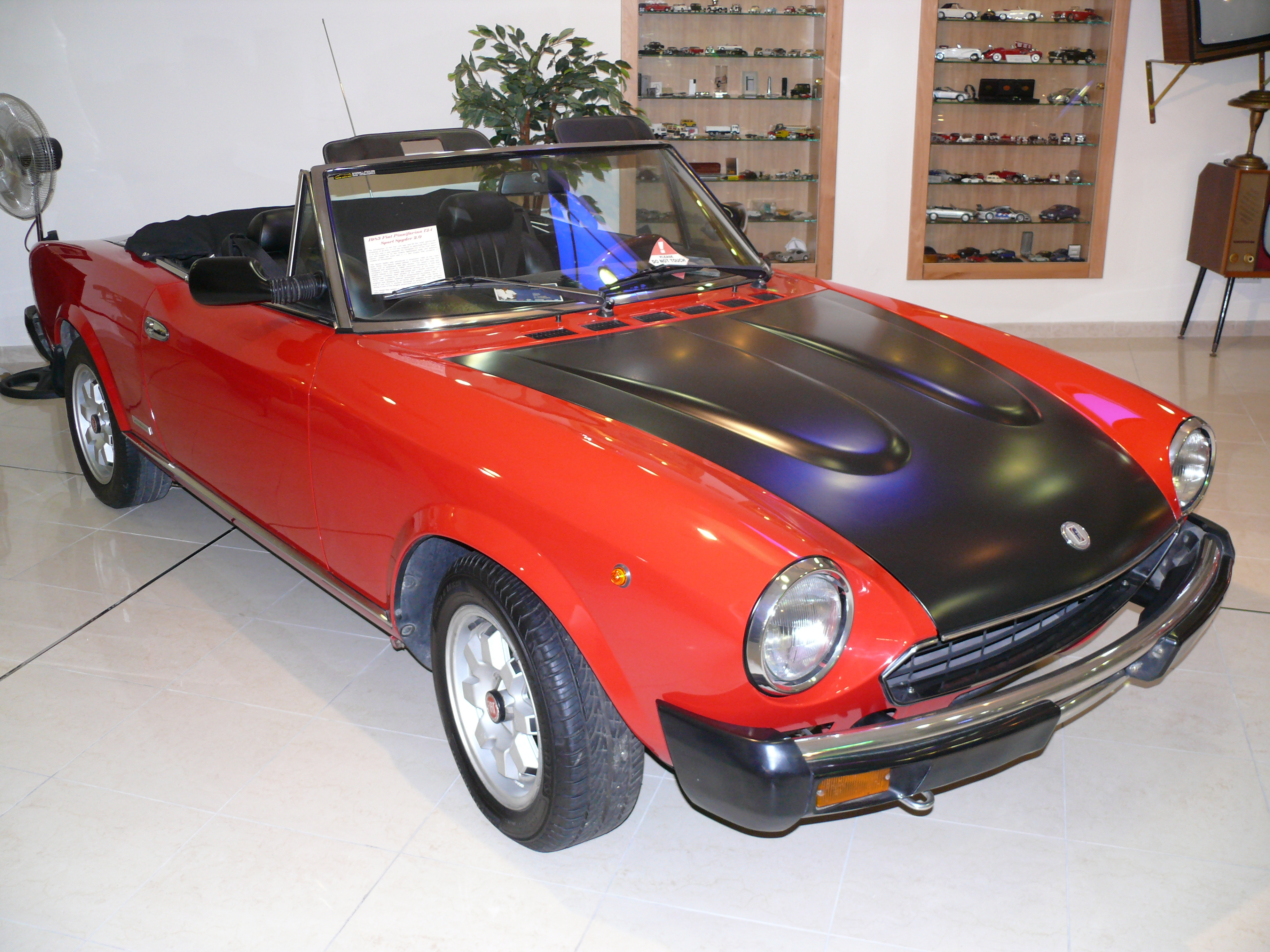 Fiat 124 Spider Abarth, Malta Classic Car Museum